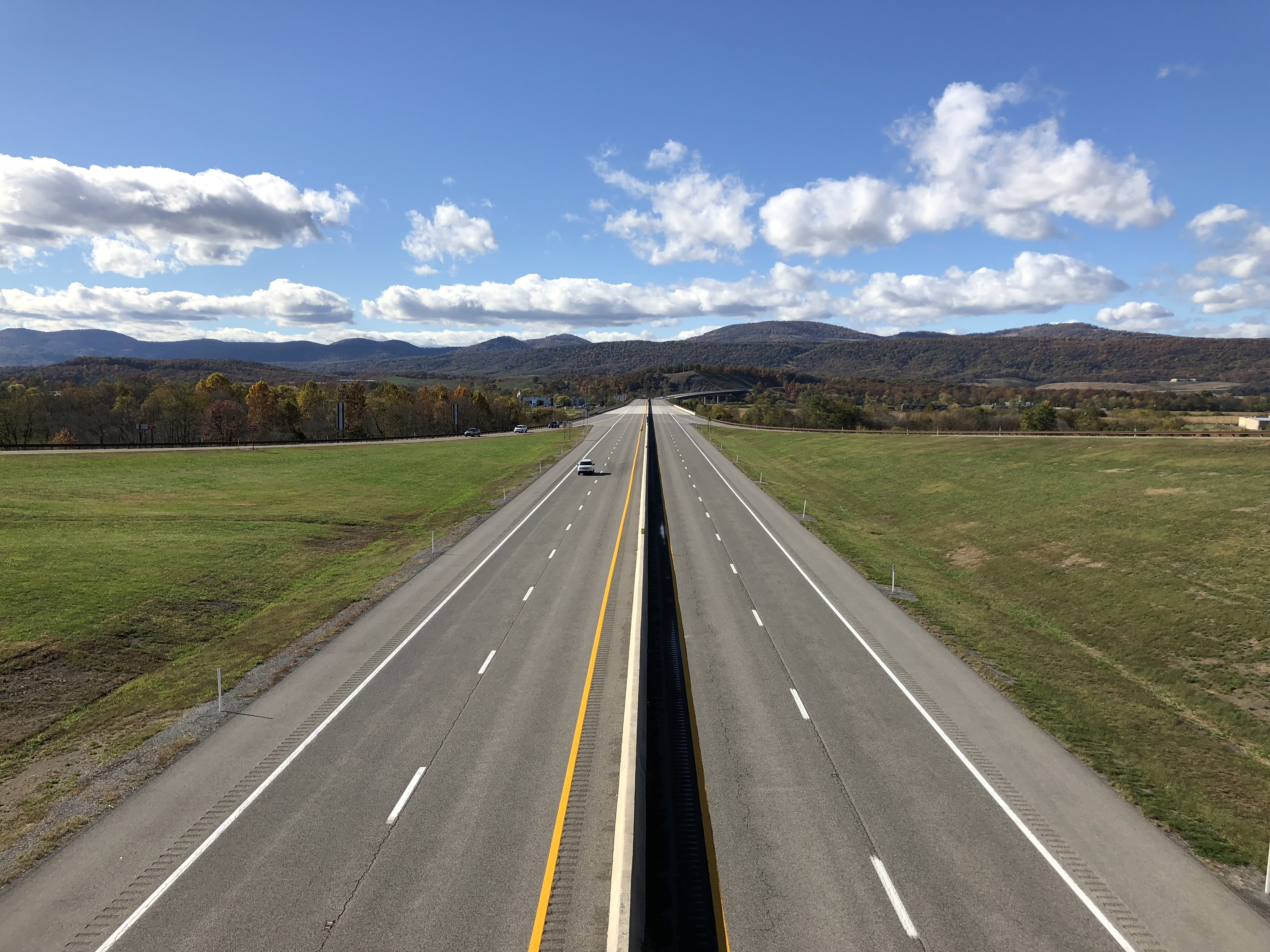 View west along U.S. Route 48 from the overpass for West Virginia State Route 55 in Moorefield, Hardy County, West Virginia